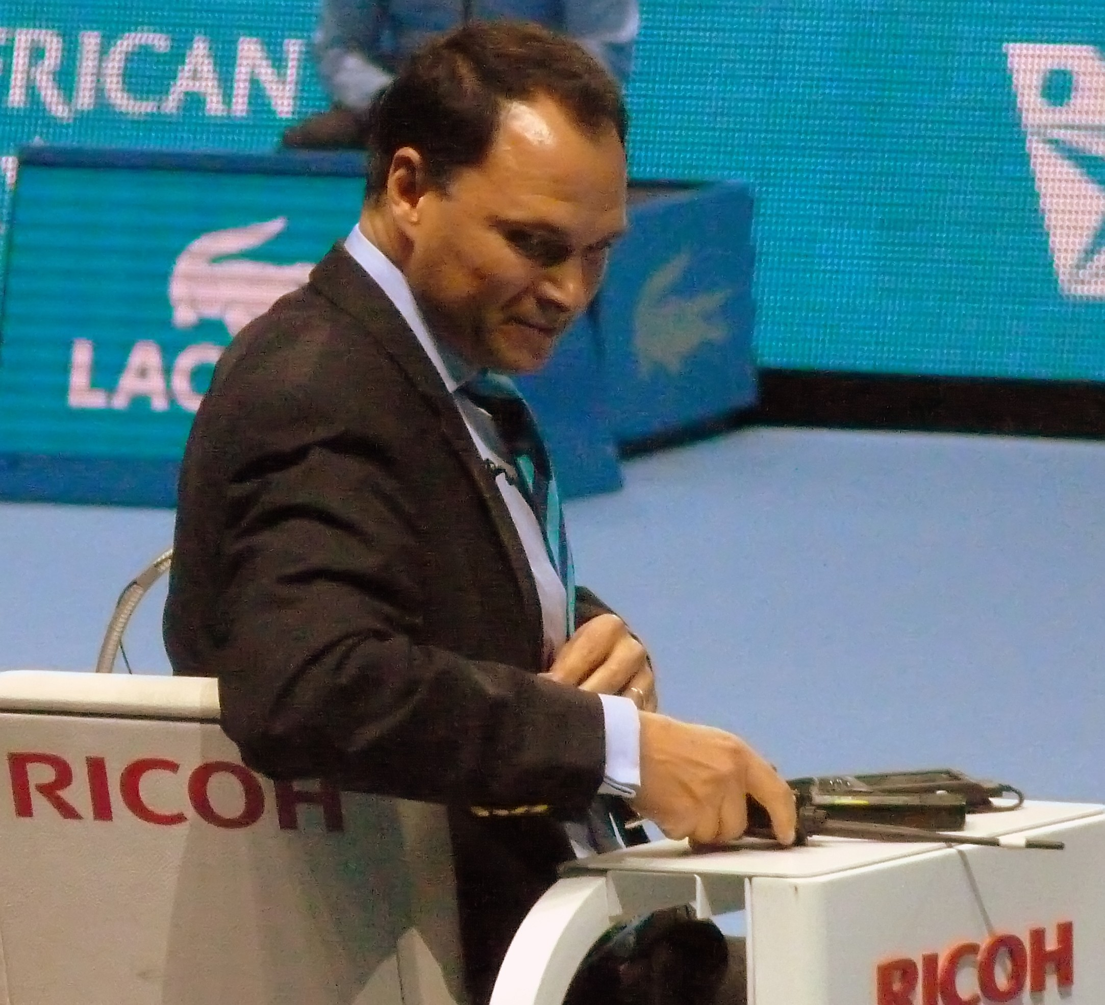 ATP World Tour Finals, the O2, London November 2011.